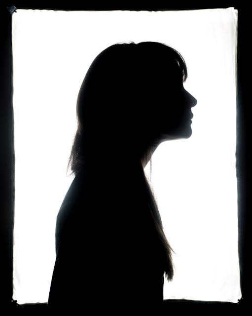 lightbox portrait of Maria Dalmazzo by Karim Estefan